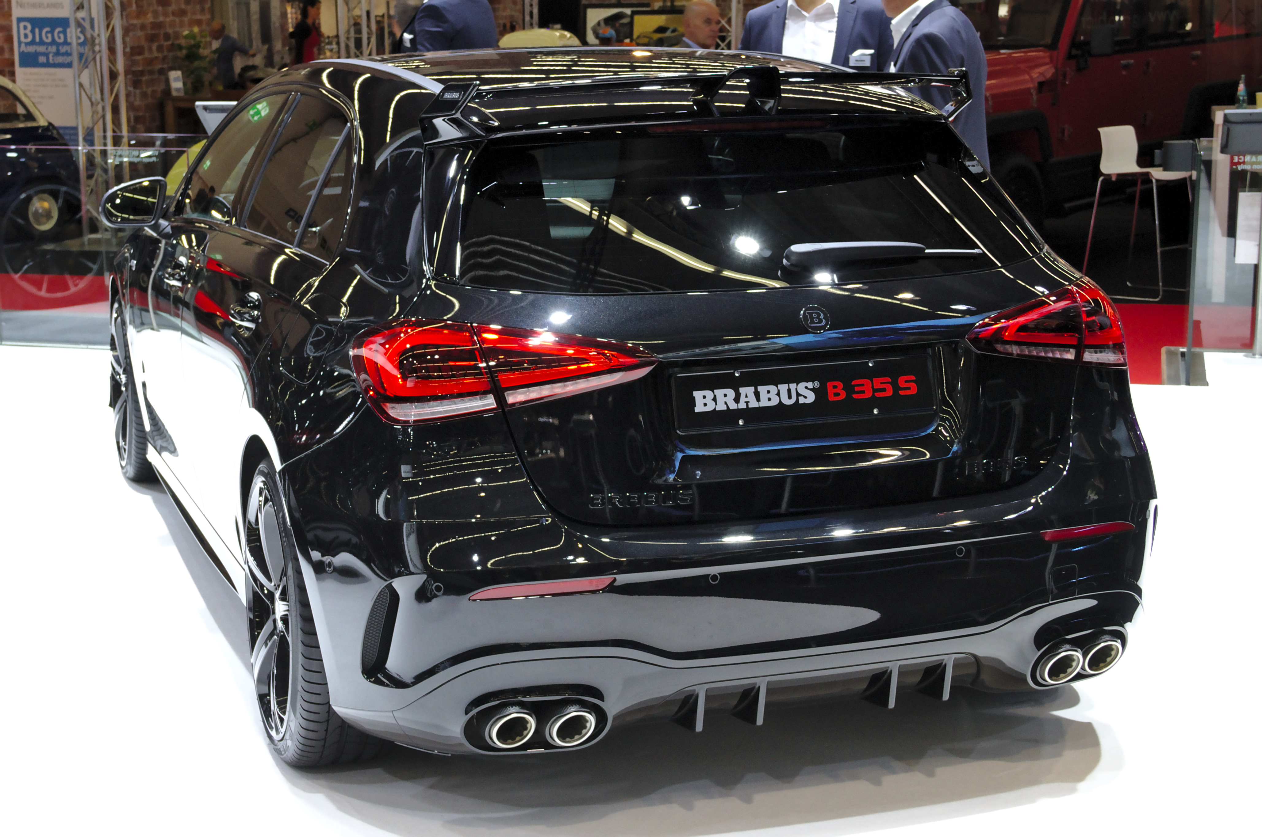 Brabus_B_35_S at IAA 2019